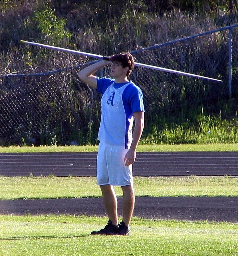 An Auburn High School (Alabama) student with a javelin.